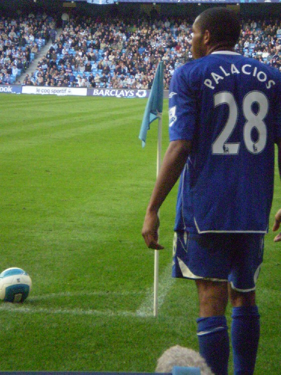 Honduras midfielder Wilson Palacios playing for Birmingham City at Manchester City